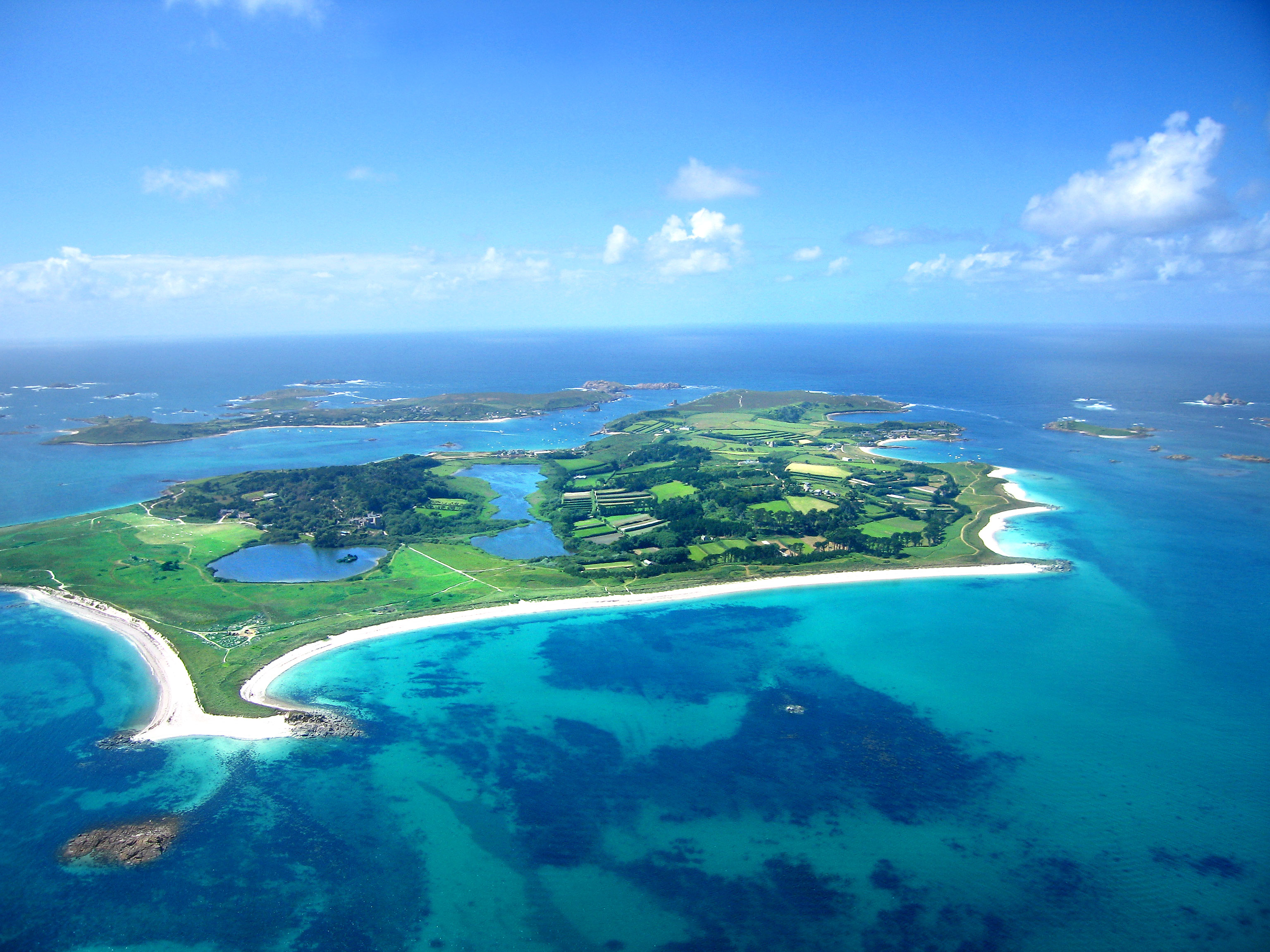 Looking across Tresco, one of the 5 inhabited islands of the Isles of Scilly 28 miles from the coast of Cornwall in the United Kingdom. Photo taken from a helicopter using a Canon PowerShot S70 camera in June 2005.